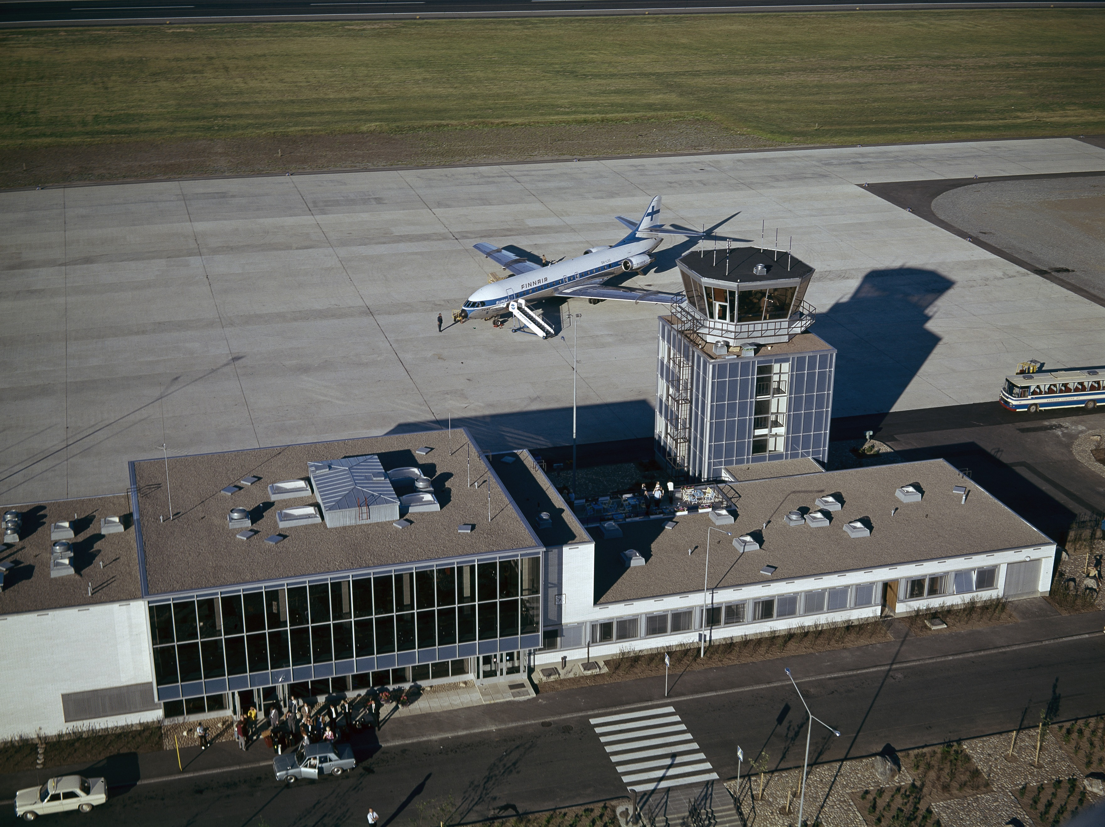 Aerial photograph of Kuopio Airport Terminal and a Sud SE-210 Caravelle 10B3 Super B aircraft (OH-LSC; Turku) of Finnair in 1966.